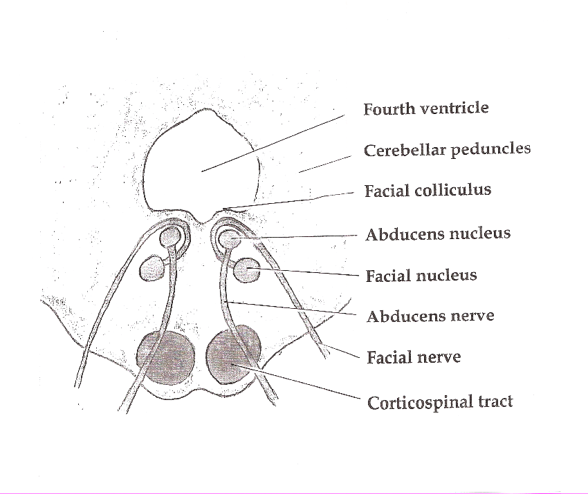 Axial section of the brainstem (pons) at the level of the Facial Colliculus. Somatic motor fibres of the facial nerve (CN7) are shown going around the abducens nucleus (CN6). Original drawing by btarski.